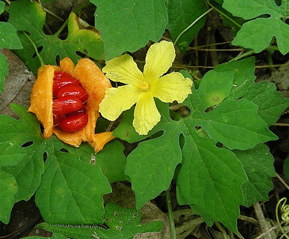 Dick Culbert: It's pantropical, sometimes planted and sometimes as a weed. The Bitter Melon or Melón Amargo, is eaten, but said to be the bitterest of foods. Its Latin handle is Momordica charantia.